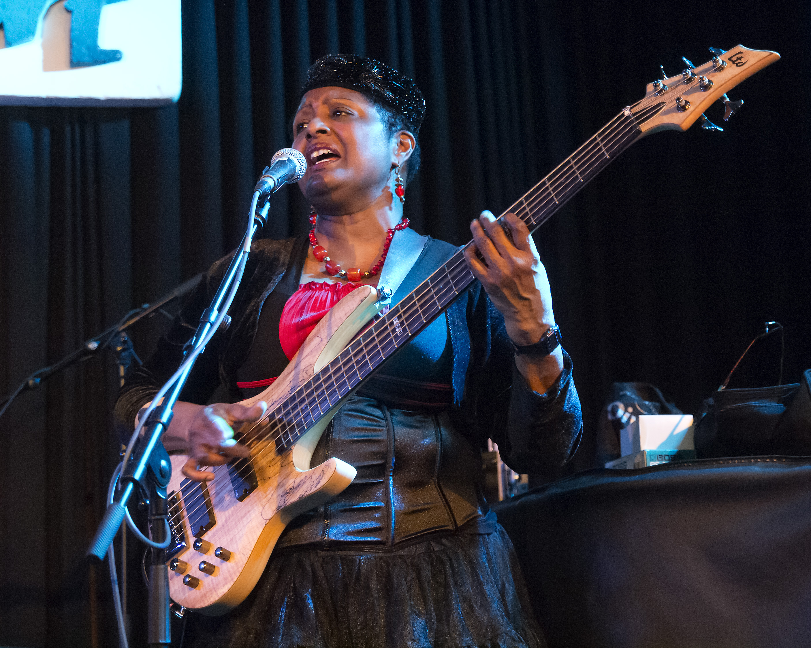 Kim Clarke, Jazz Bassist, Picture taken in Jazz Club Unterfahrt, Munich/Bavaria